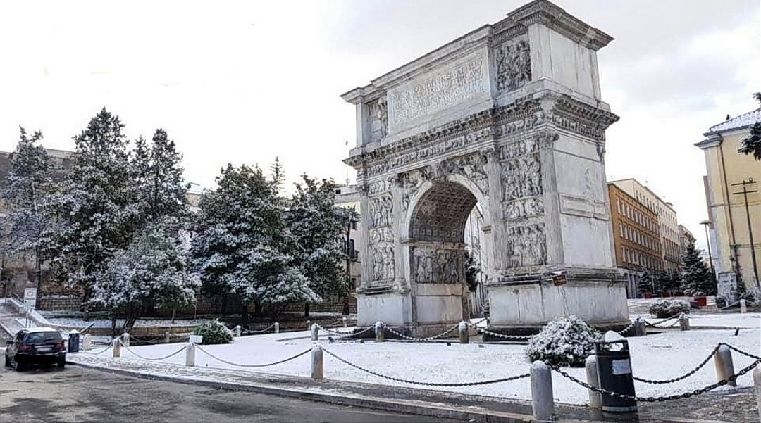 The Arch of Trajan in Benevento, Italy, covered in snow.